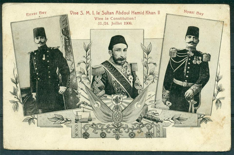 Enver bey, Sultan Abdulhamit and Niyazi bey.